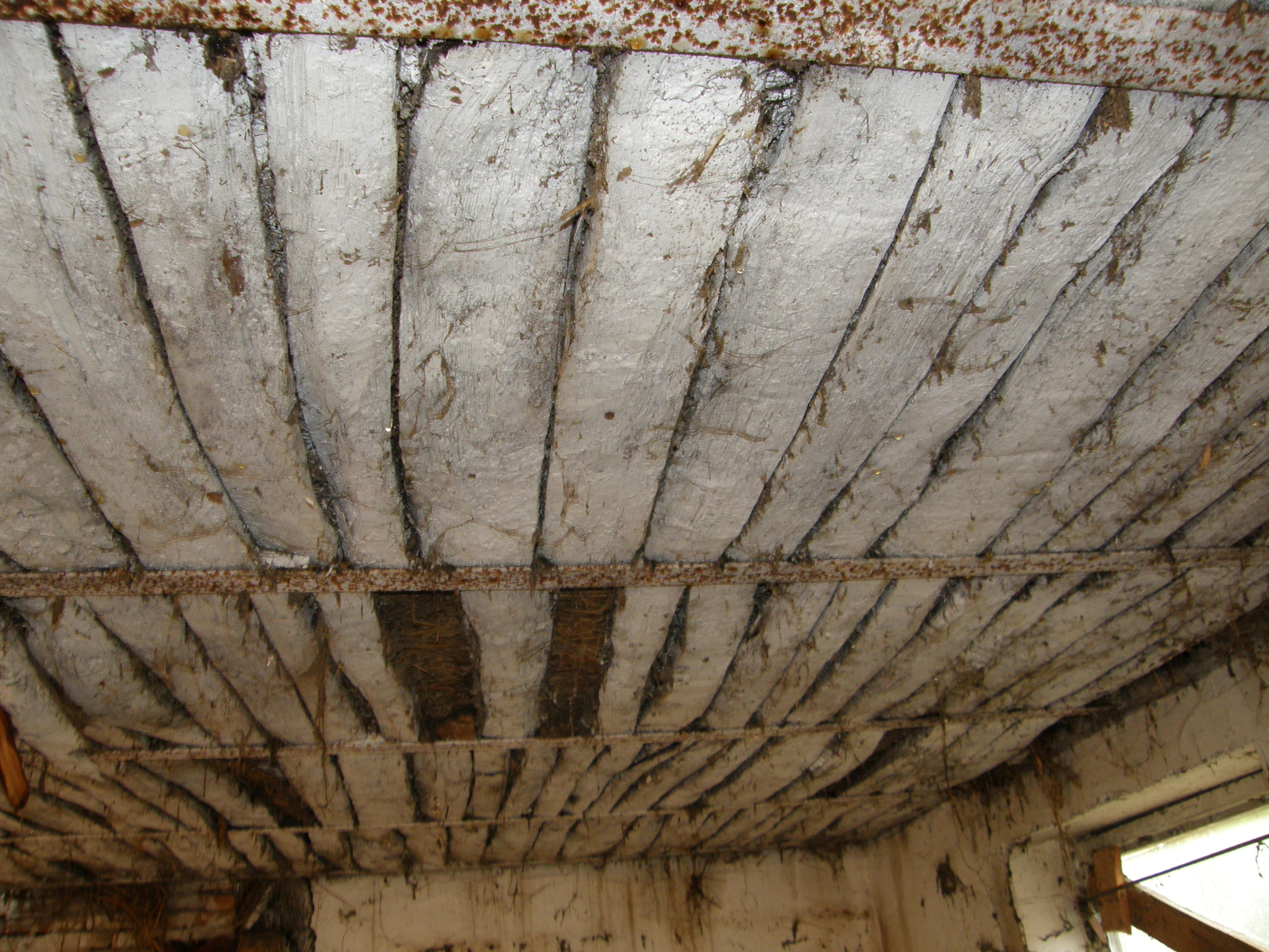 Ceiling